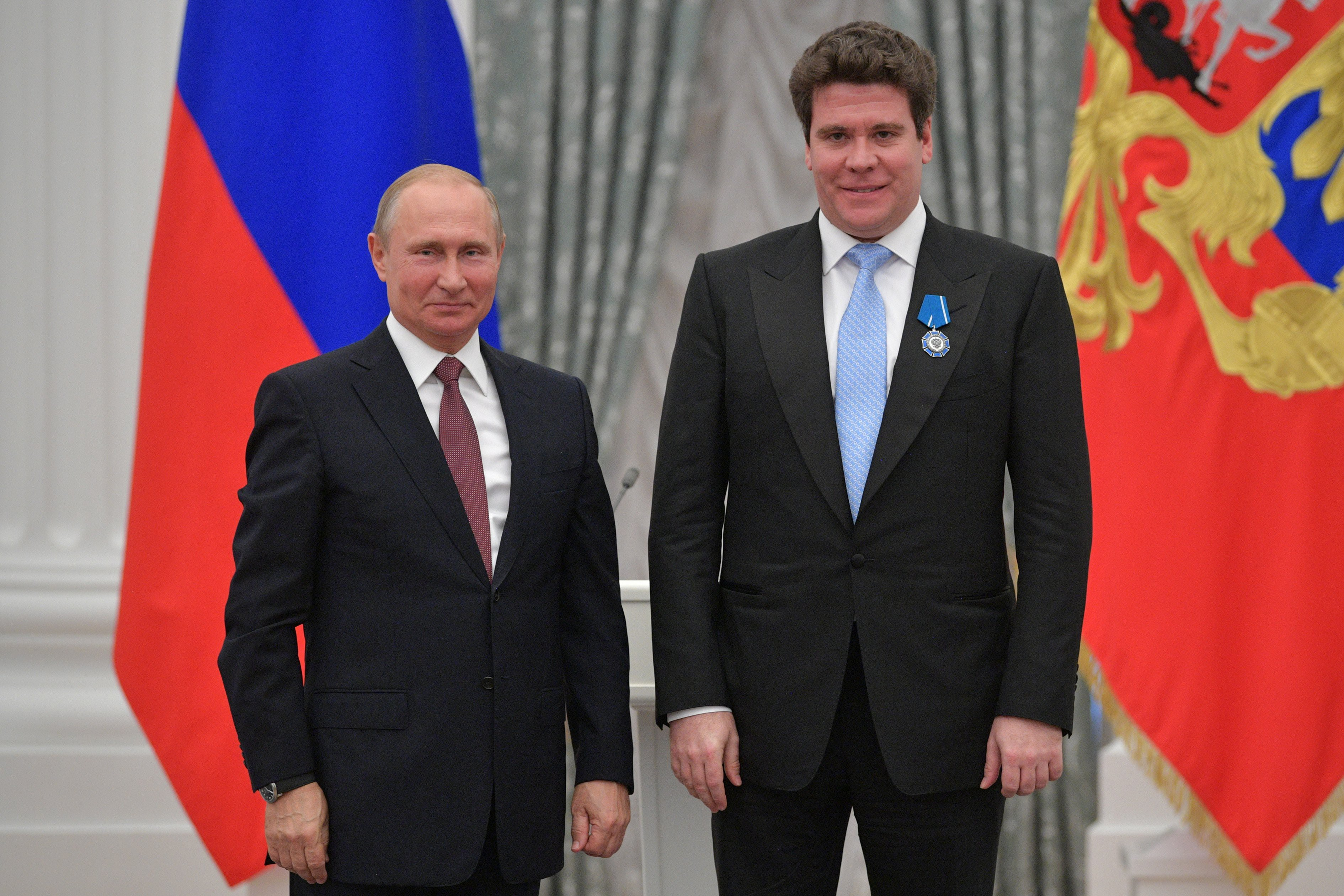 Vladimir Putin and Denis Matsuev at award ceremonies 27 Jun 2018, Kremlin, Moscow.